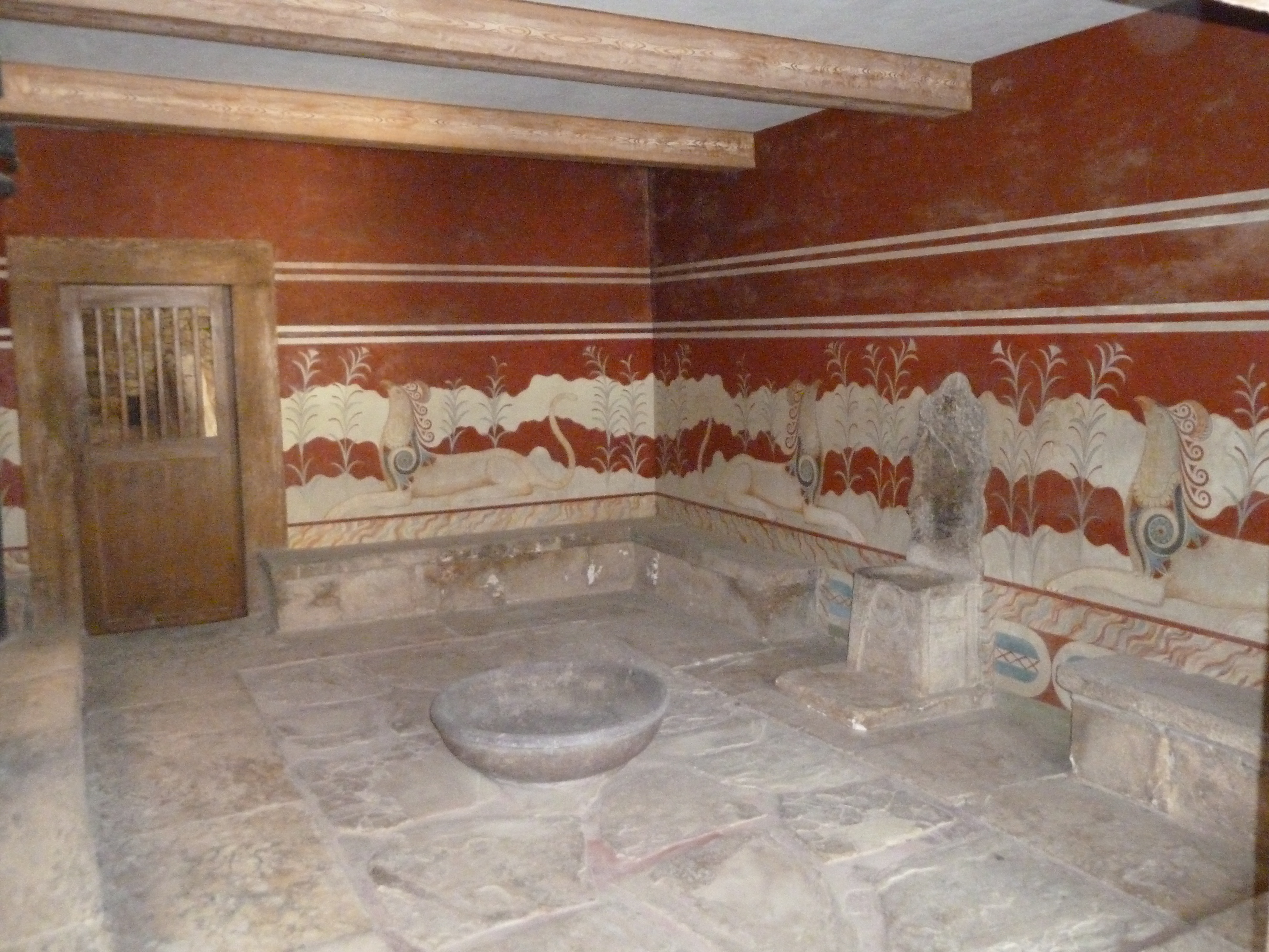 Minoean Pallace, Knossos, Crete, Greece